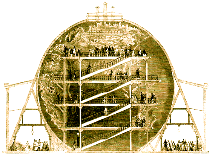 Sectional view of Wyld's Great Globe, Leicester Square, London